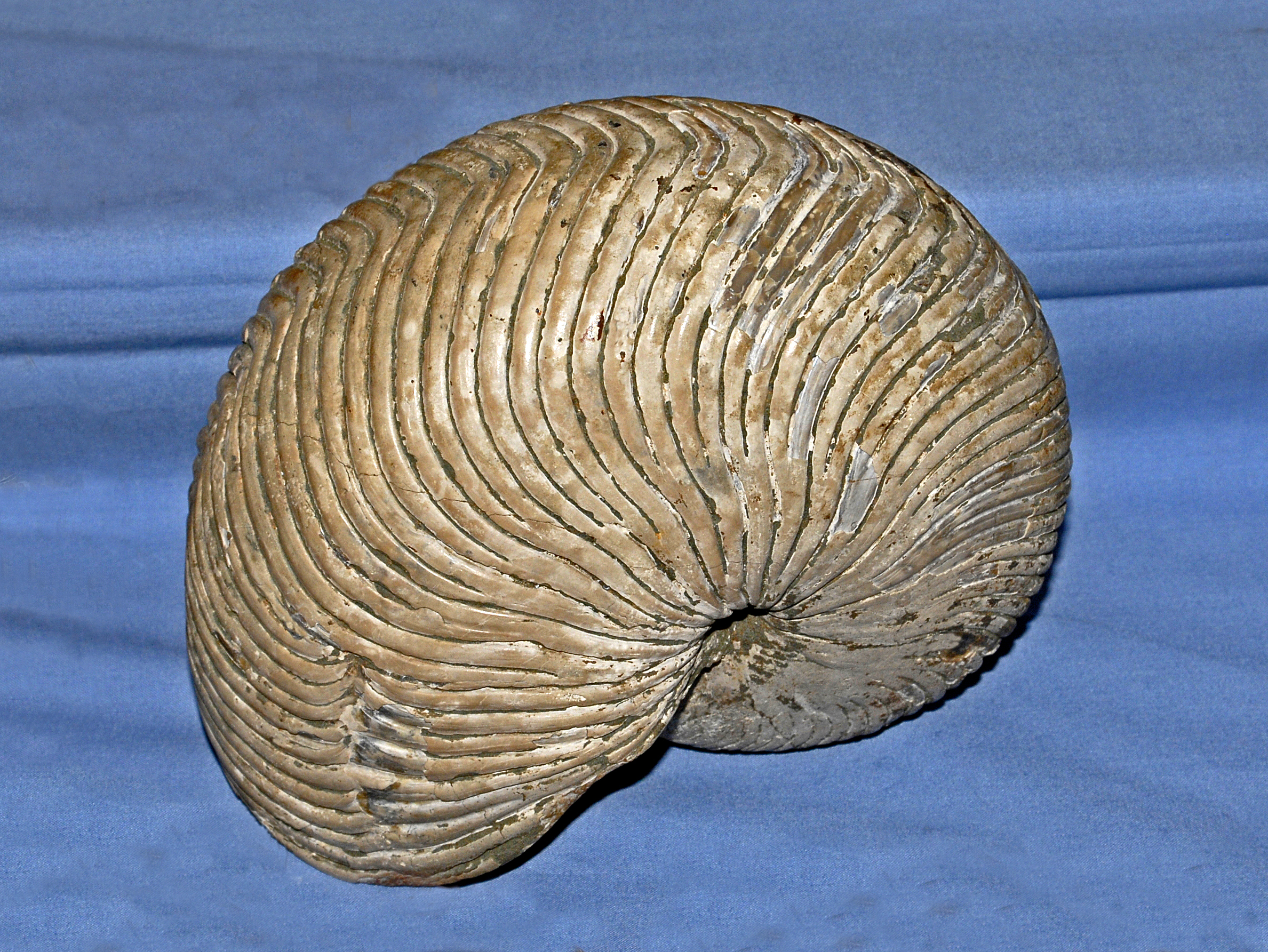 Cymatoceras subalbensis from Albian of Madagascar